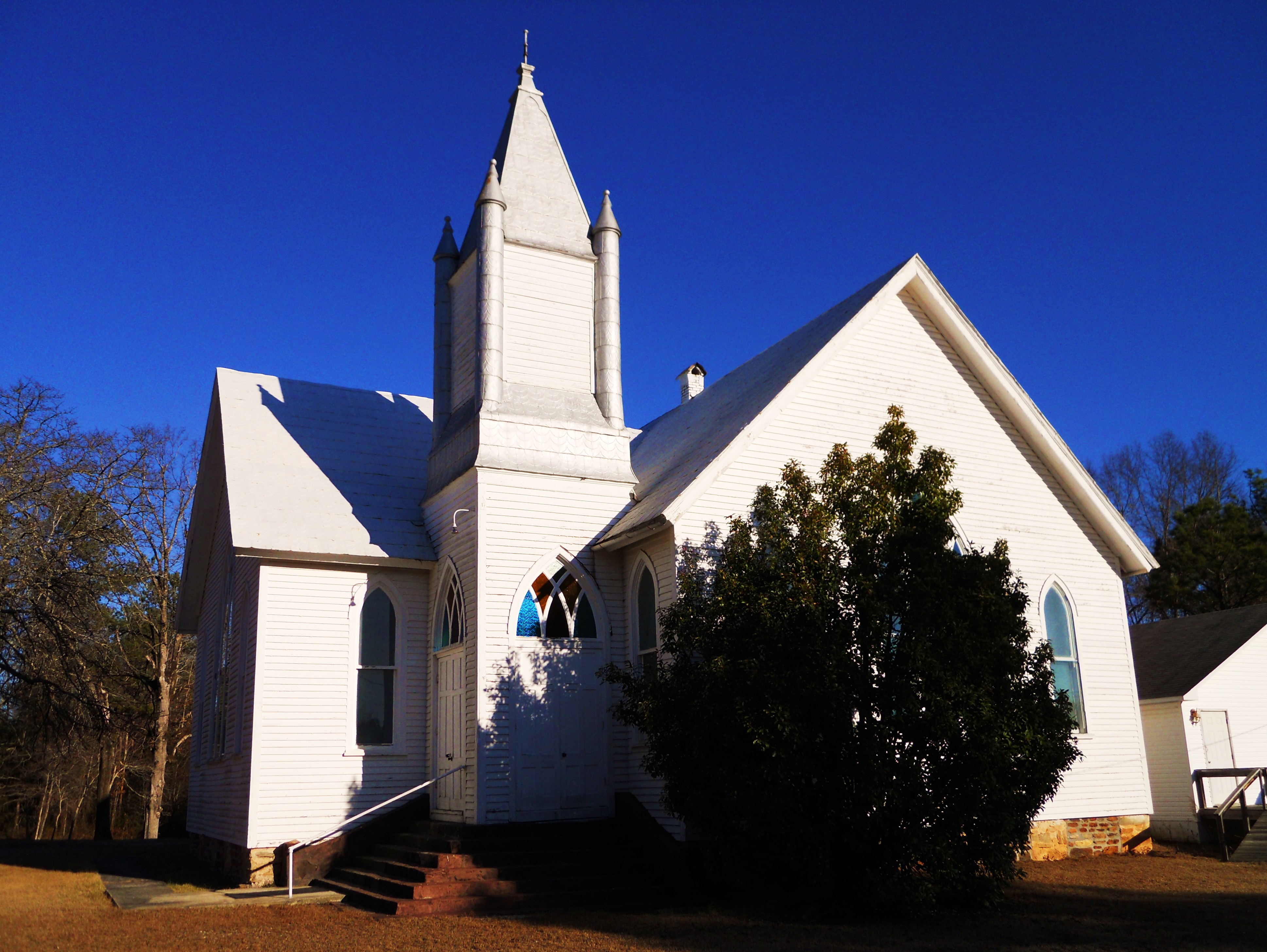 This is a photo of the Roxana United Methodist Church in Roxana, Alabama.